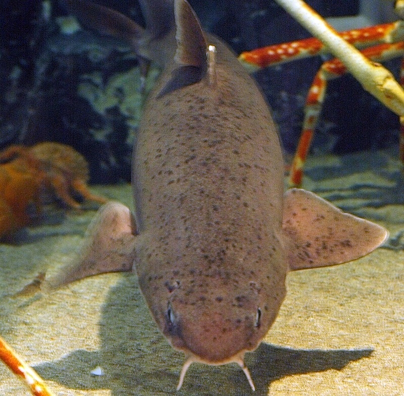 Mandarin dogfish (Cirrhigaleus barbifer)